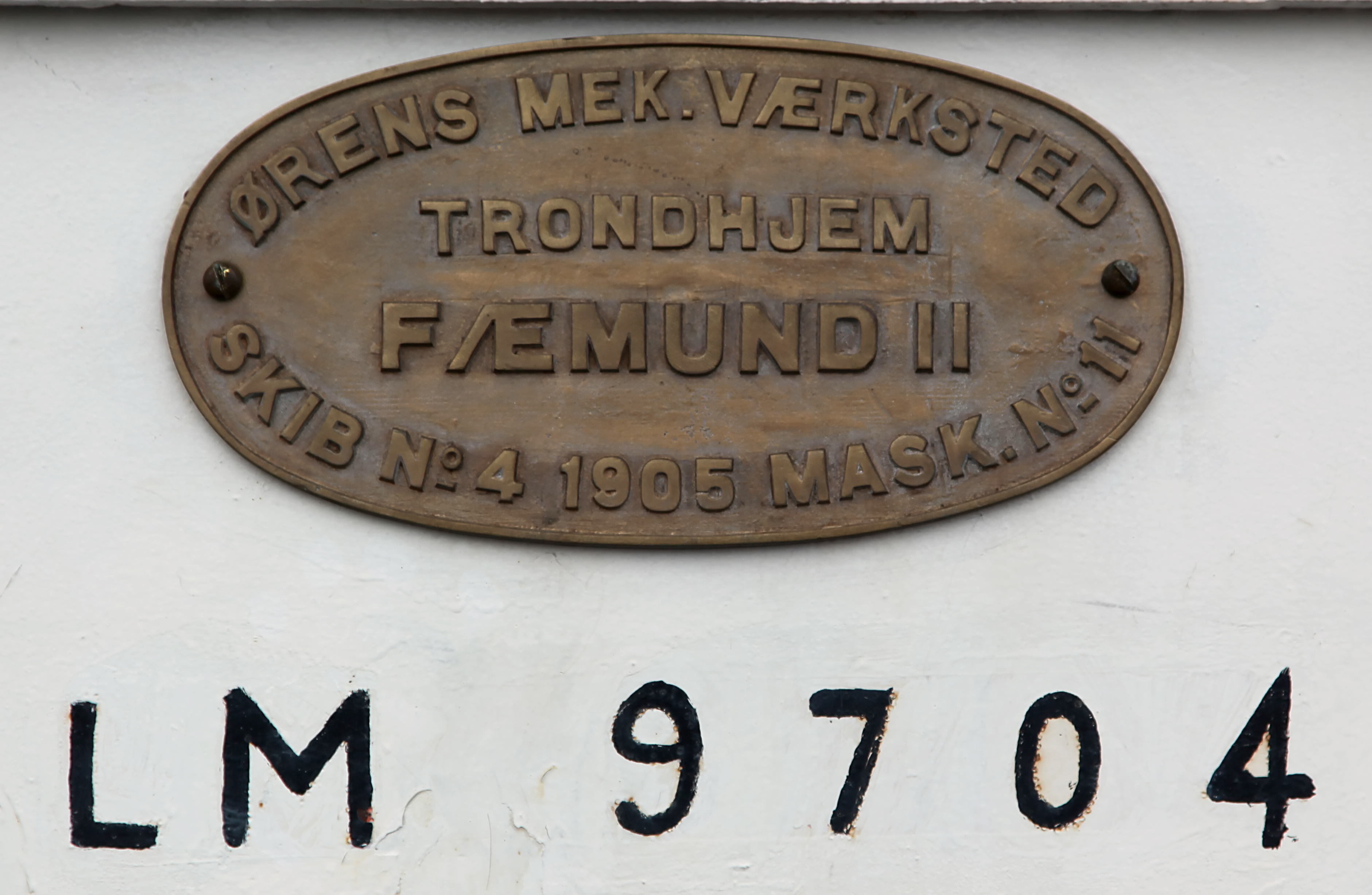 Manufacturer's plaque Faemund II